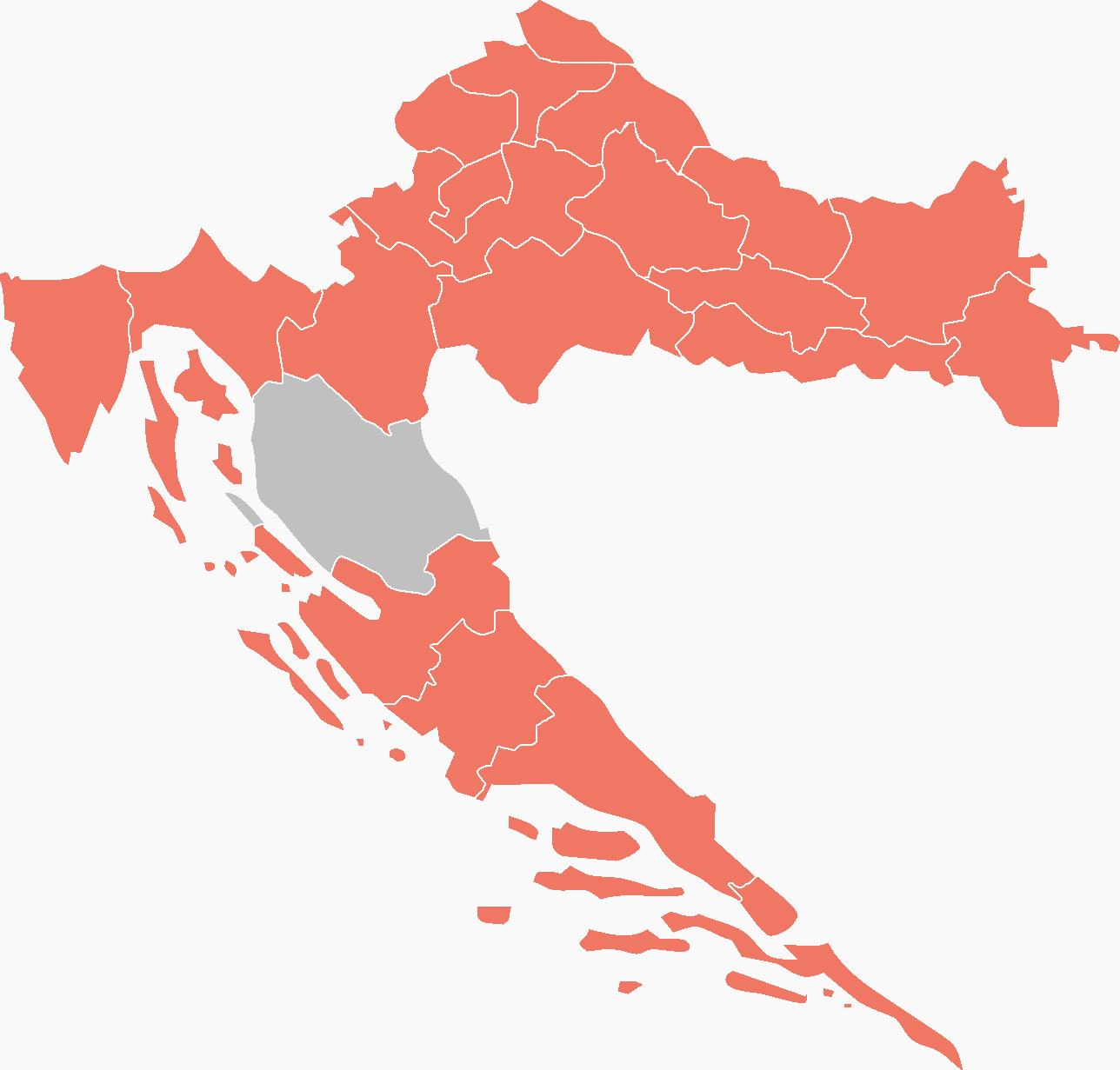 The results of the second round of the Croatian presidential election, 2009-2010 by counties.